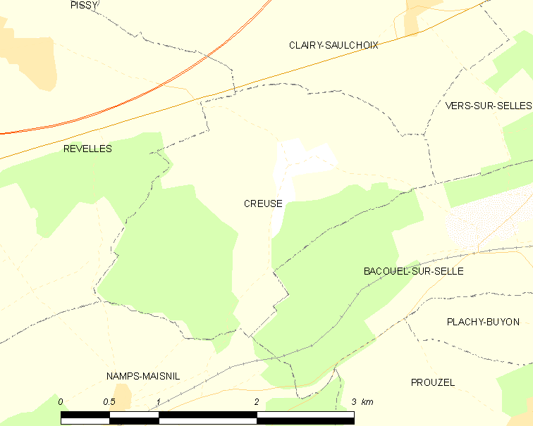 Map of French municipality Creuse